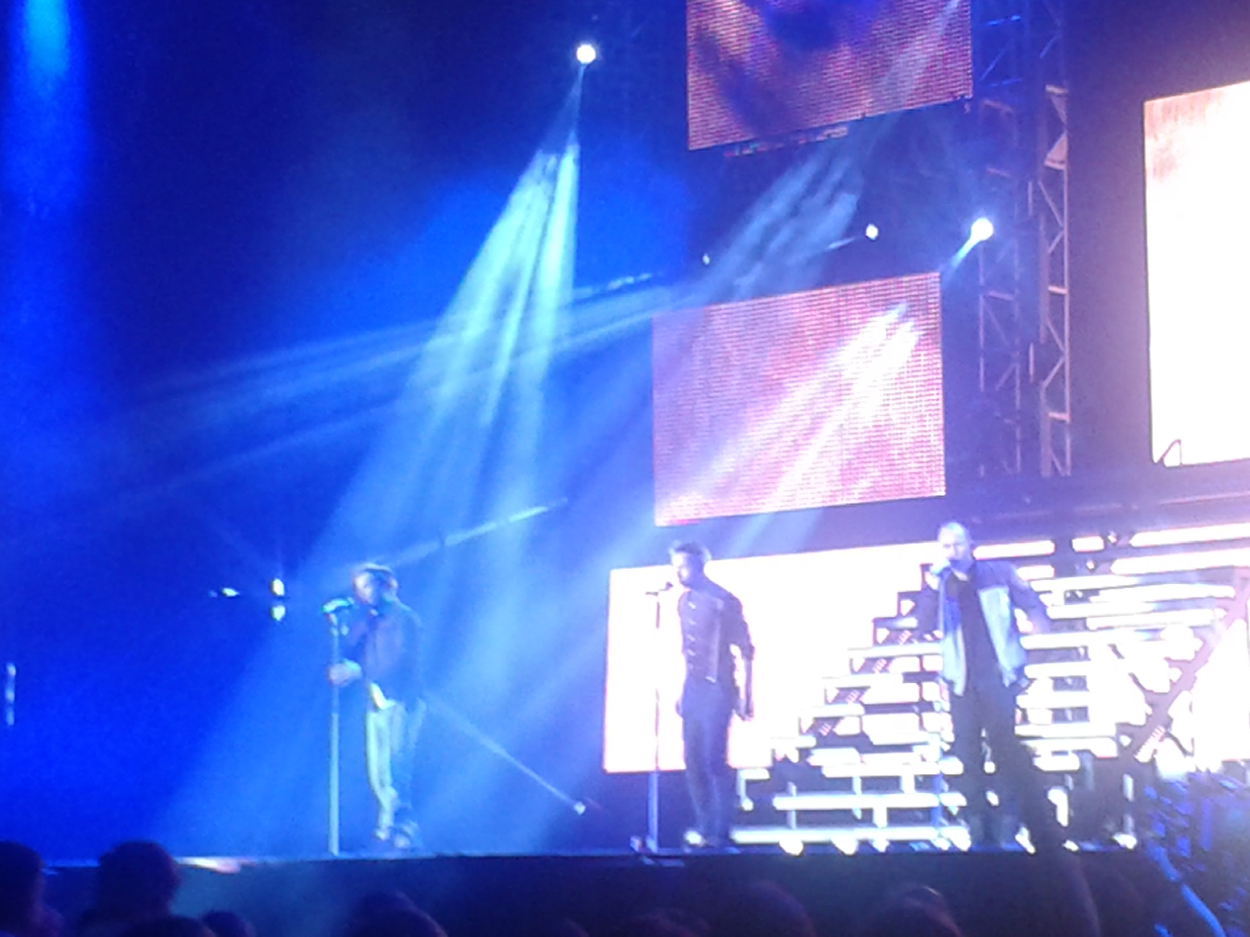 911 performing at the SECC in Glasgow, Scotland.